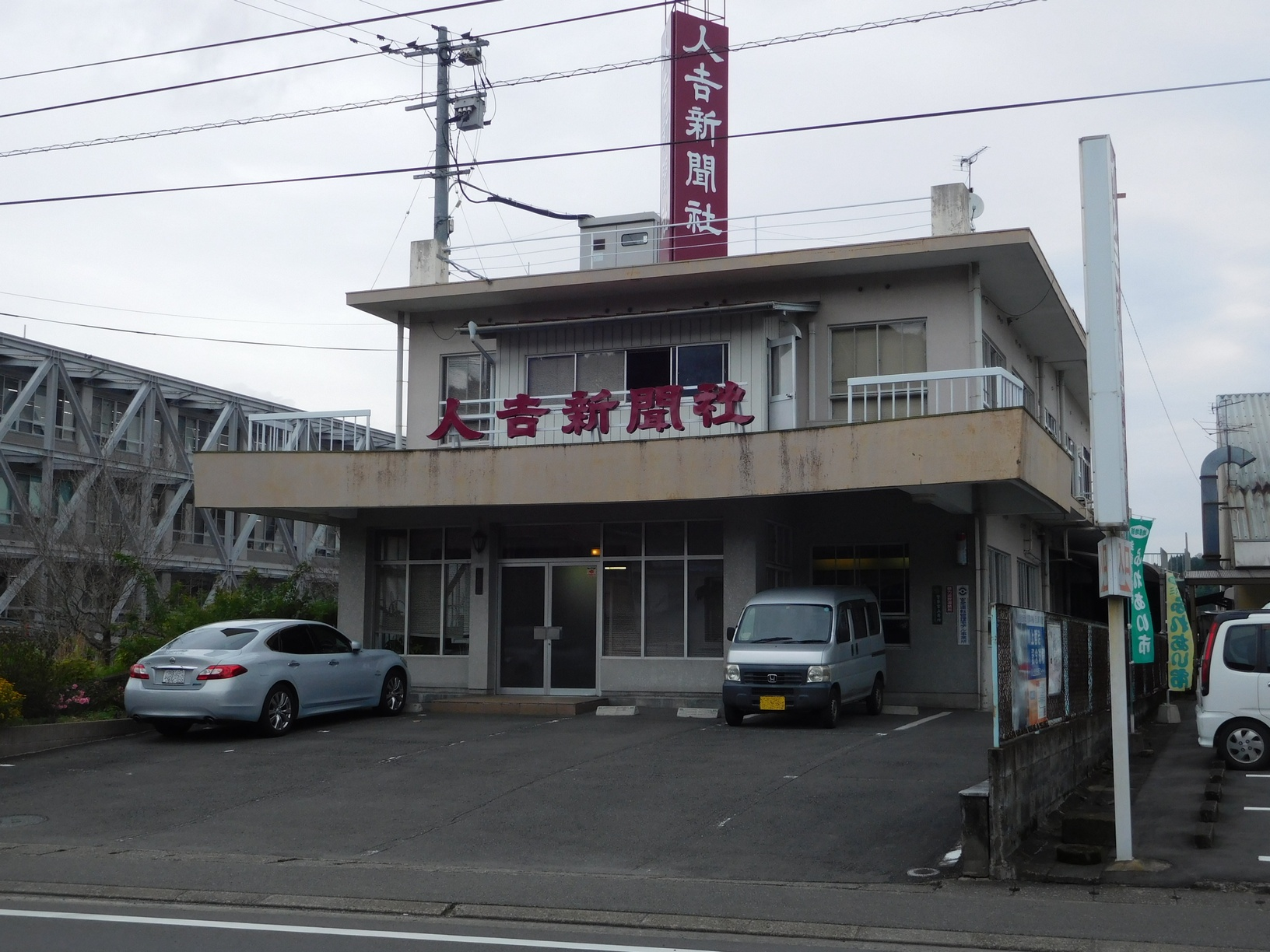 Hitoyoshi Shimbun Head Office (a Japanese Newspaper in Kuma District, Kumamoto Prefecture, Japan)